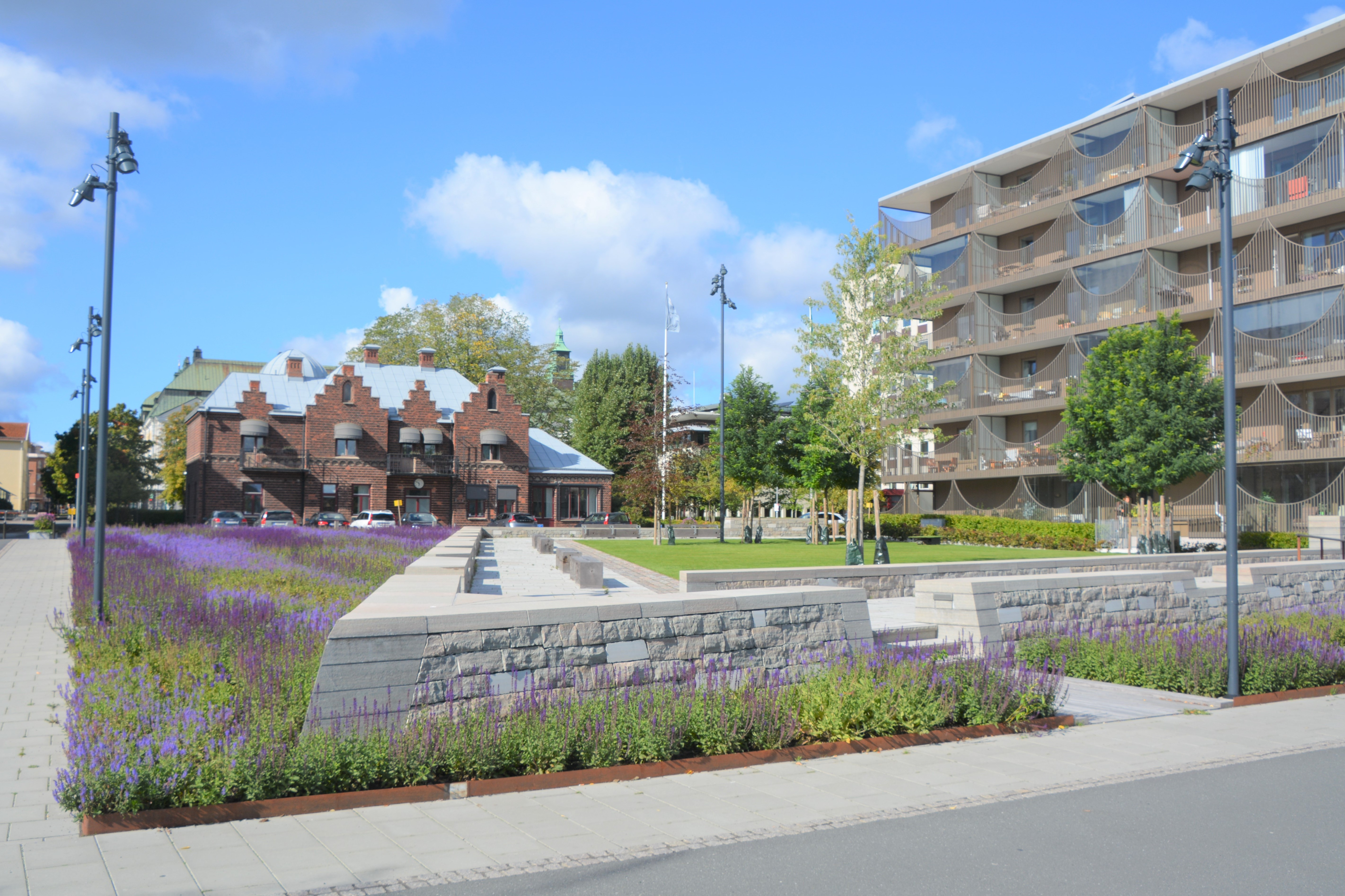 Bastion Carolusparken i Jönköping på platsen för Jönköpings slott